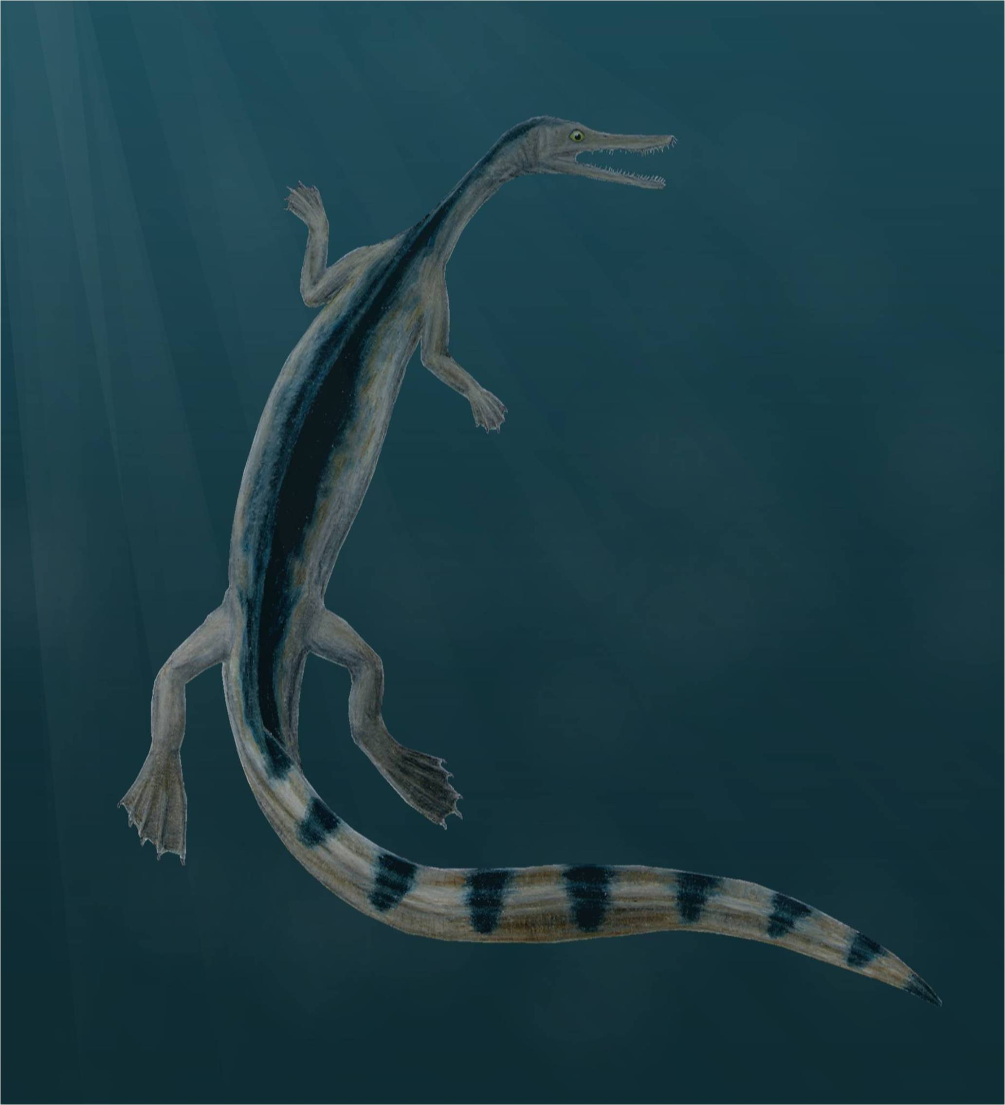 Life restoration of Stereosternum tumidum